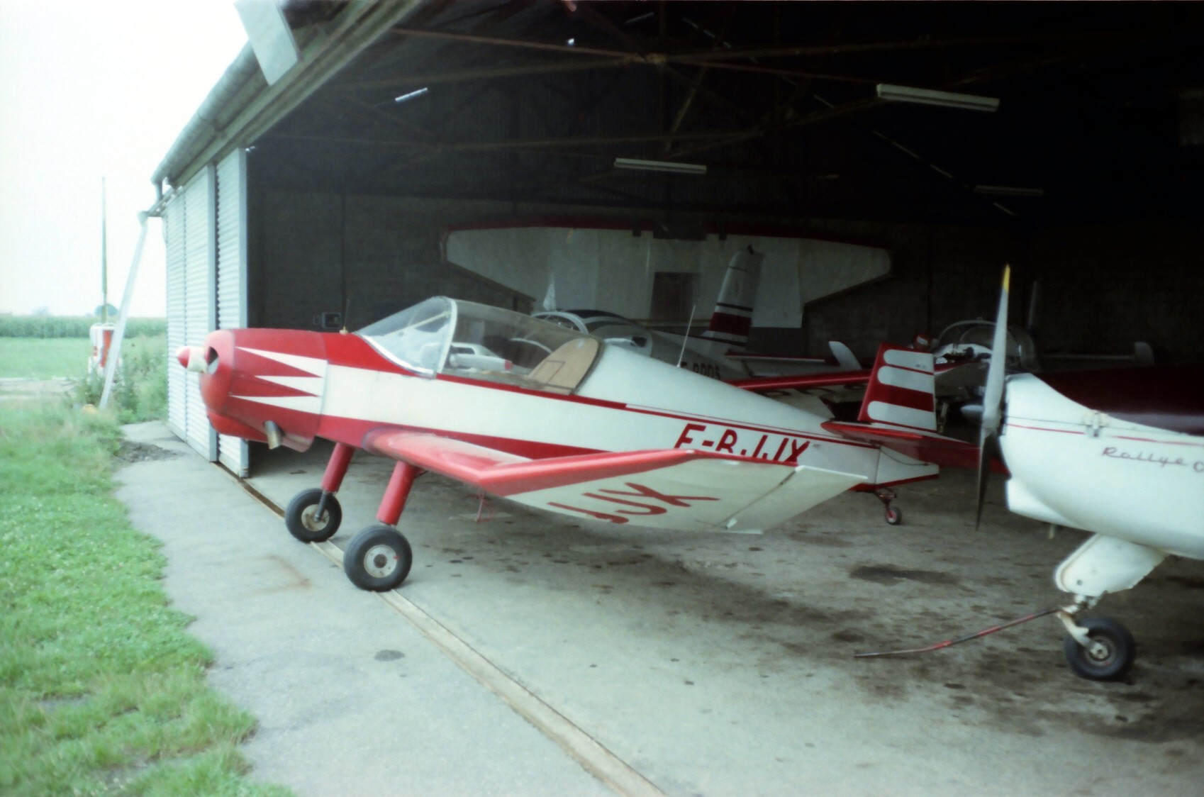 Jodel D 127 at Aero club du Forez (near Feurs Loire) 1982